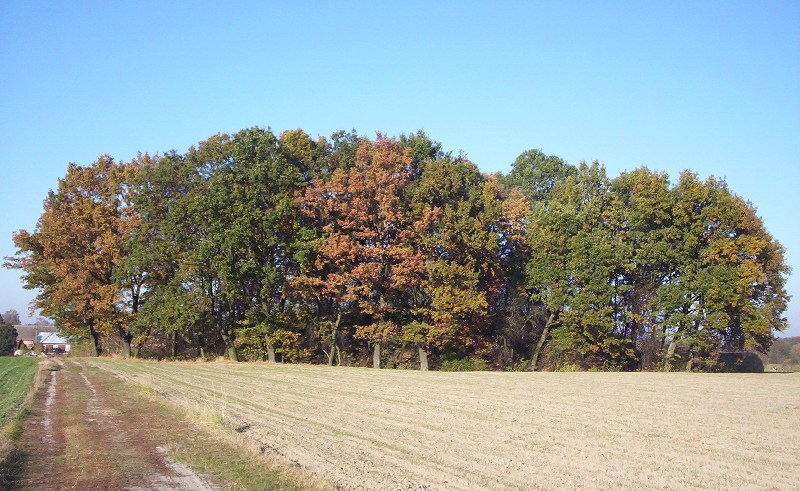 Mound (hidden in trees) where the gord was in XI-XII century - Stara Rawa, eastern part of Łódź Voivodship, Poland.